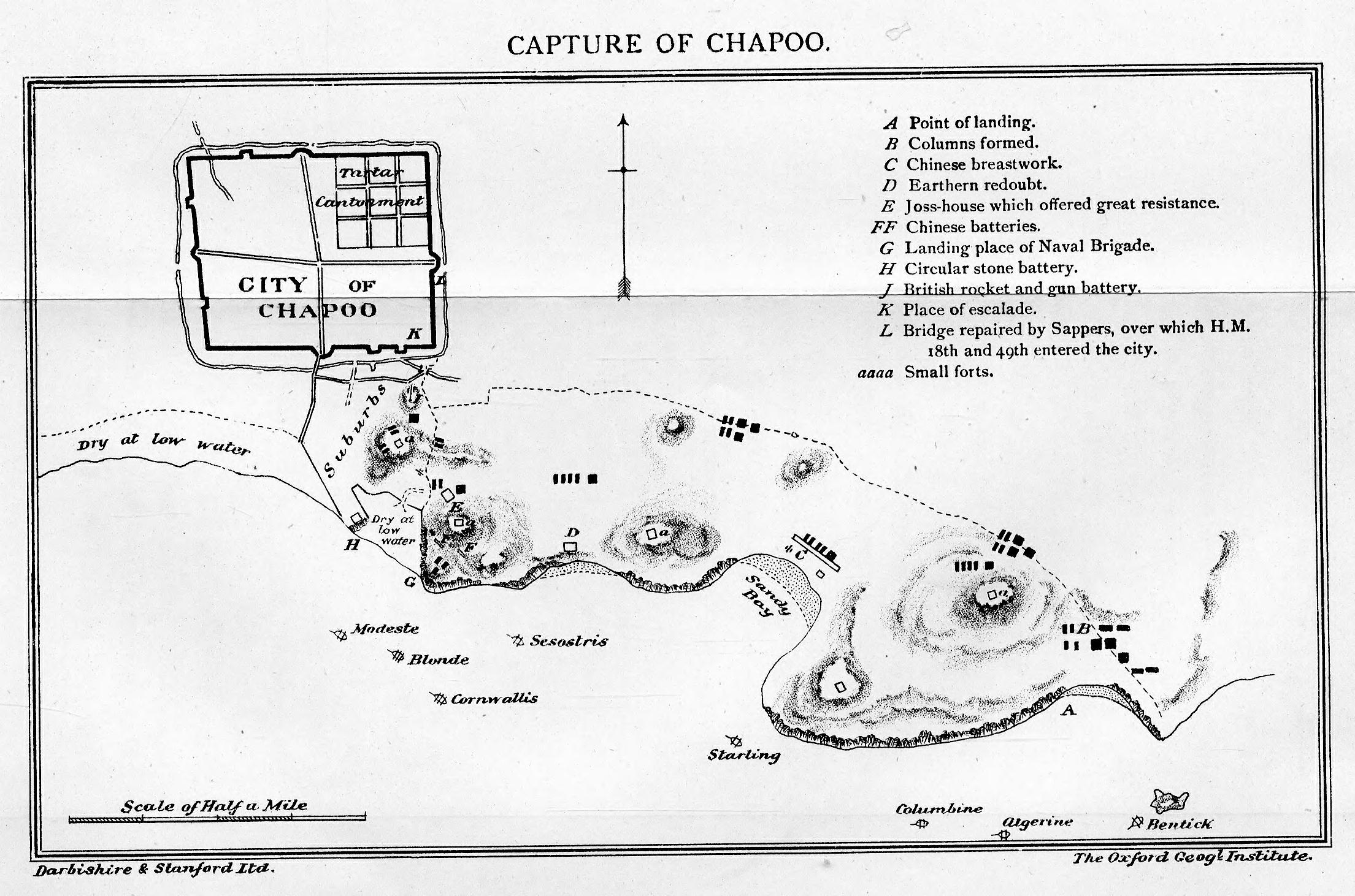 Map of the capture of Chapoo